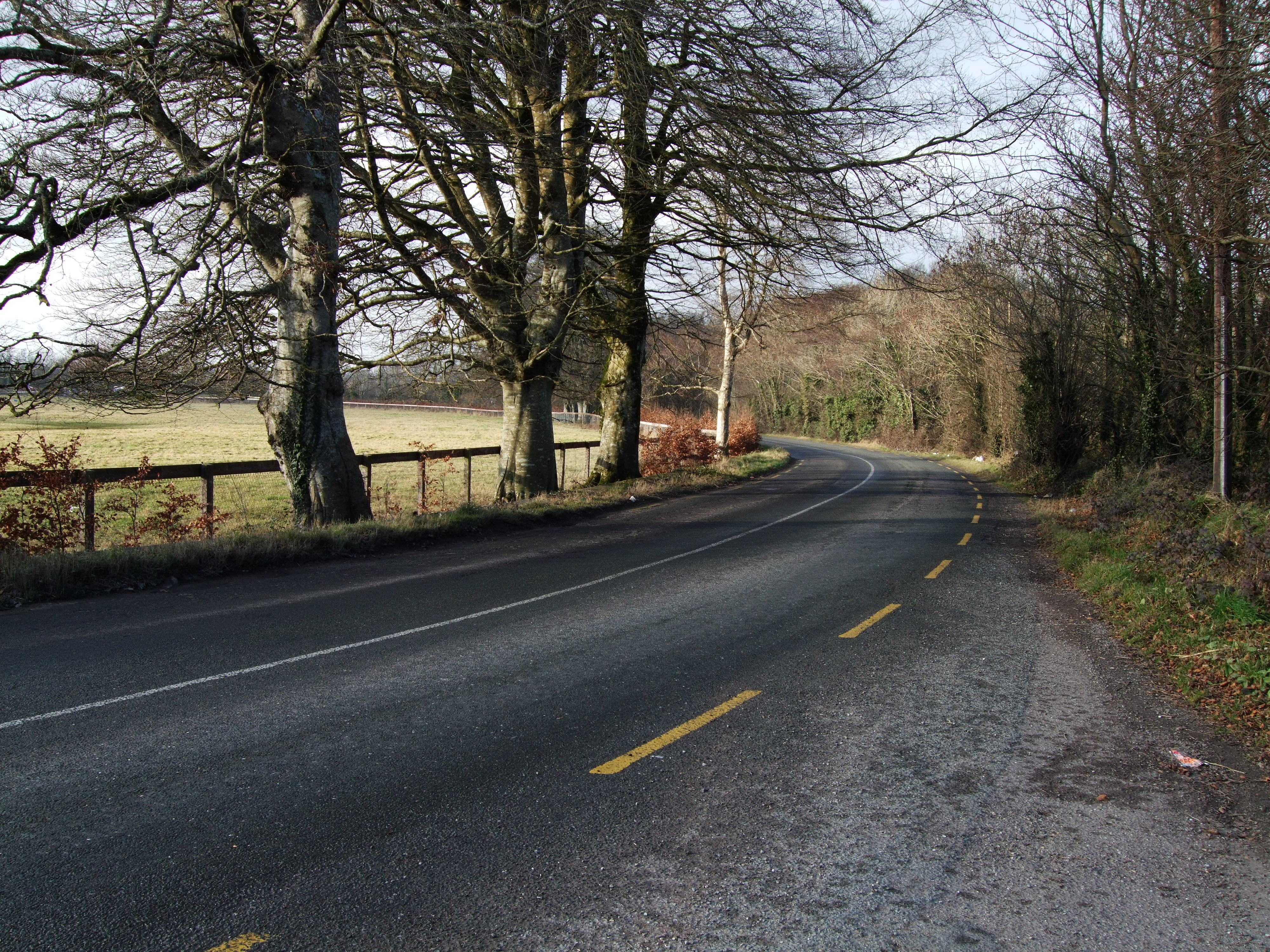 A section of the R626.